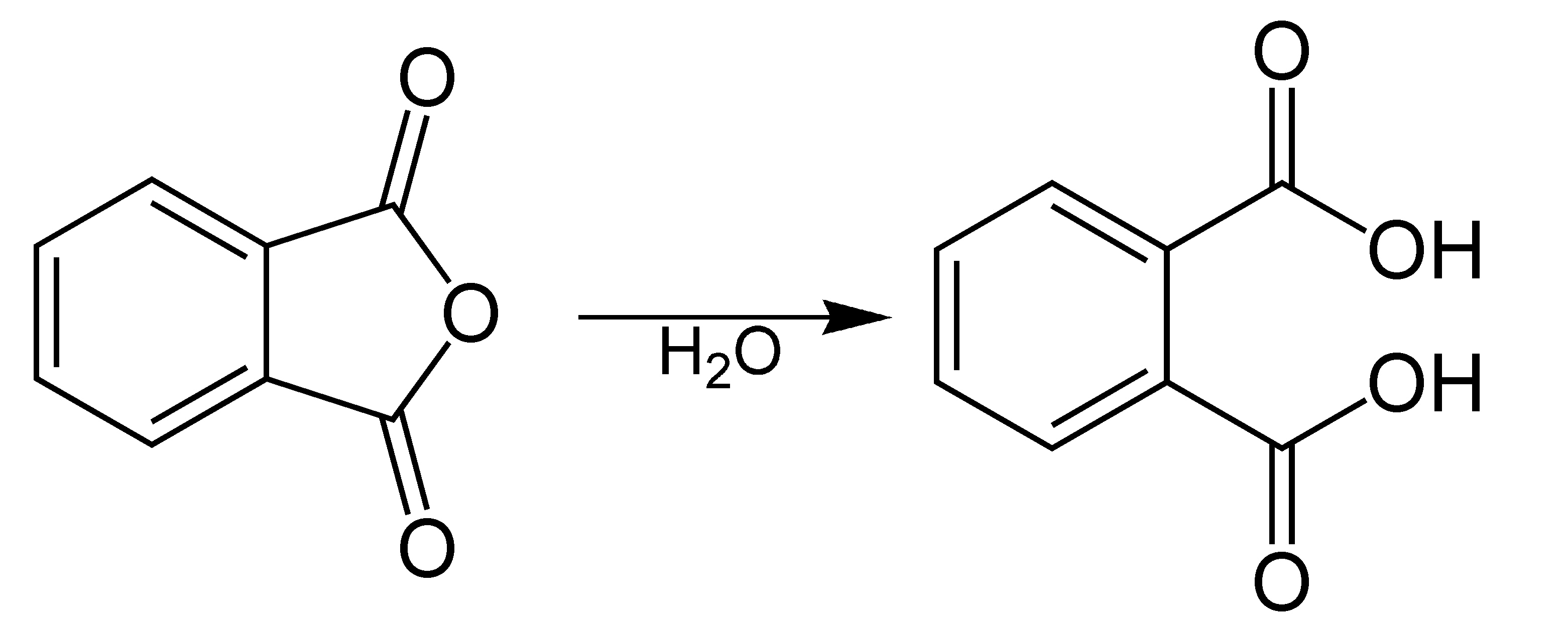 Hydrolysis_of_Phthalic_Anhydride